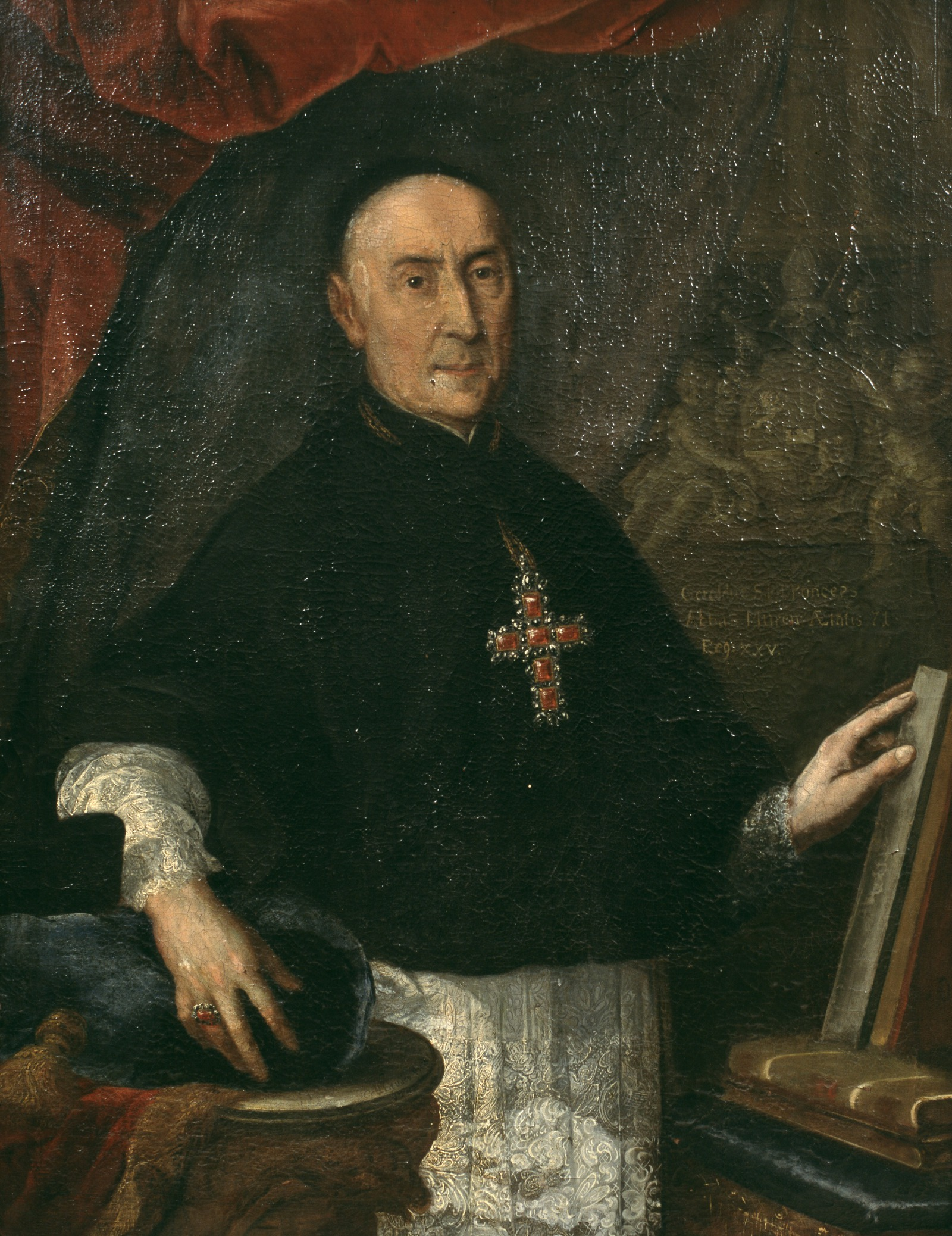 Gerold Haimb, imperial abbot of Muri from 1723 to 1751